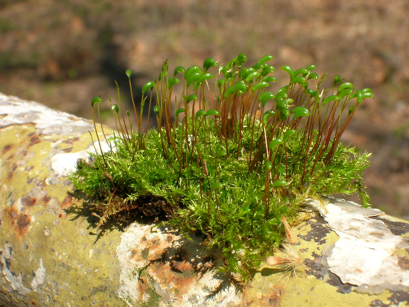 Moss sporangium